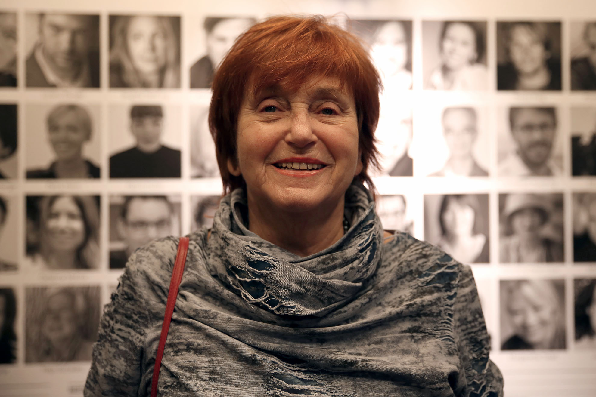 Valie Export at the Austrian Film Awards 2013 (Vienna).